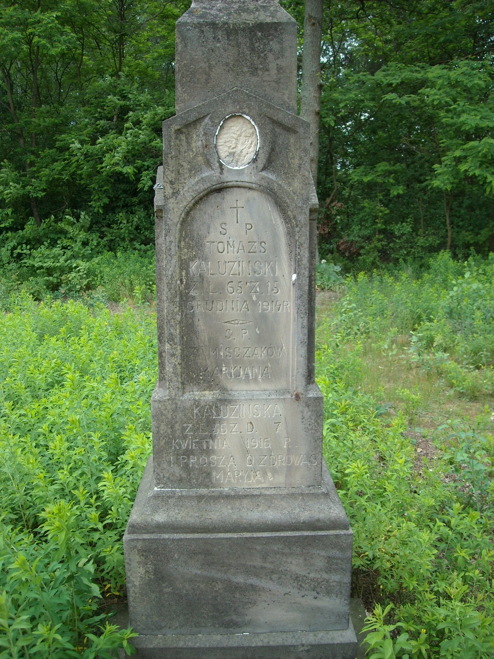 An old grave on cementery in Żeleźnica